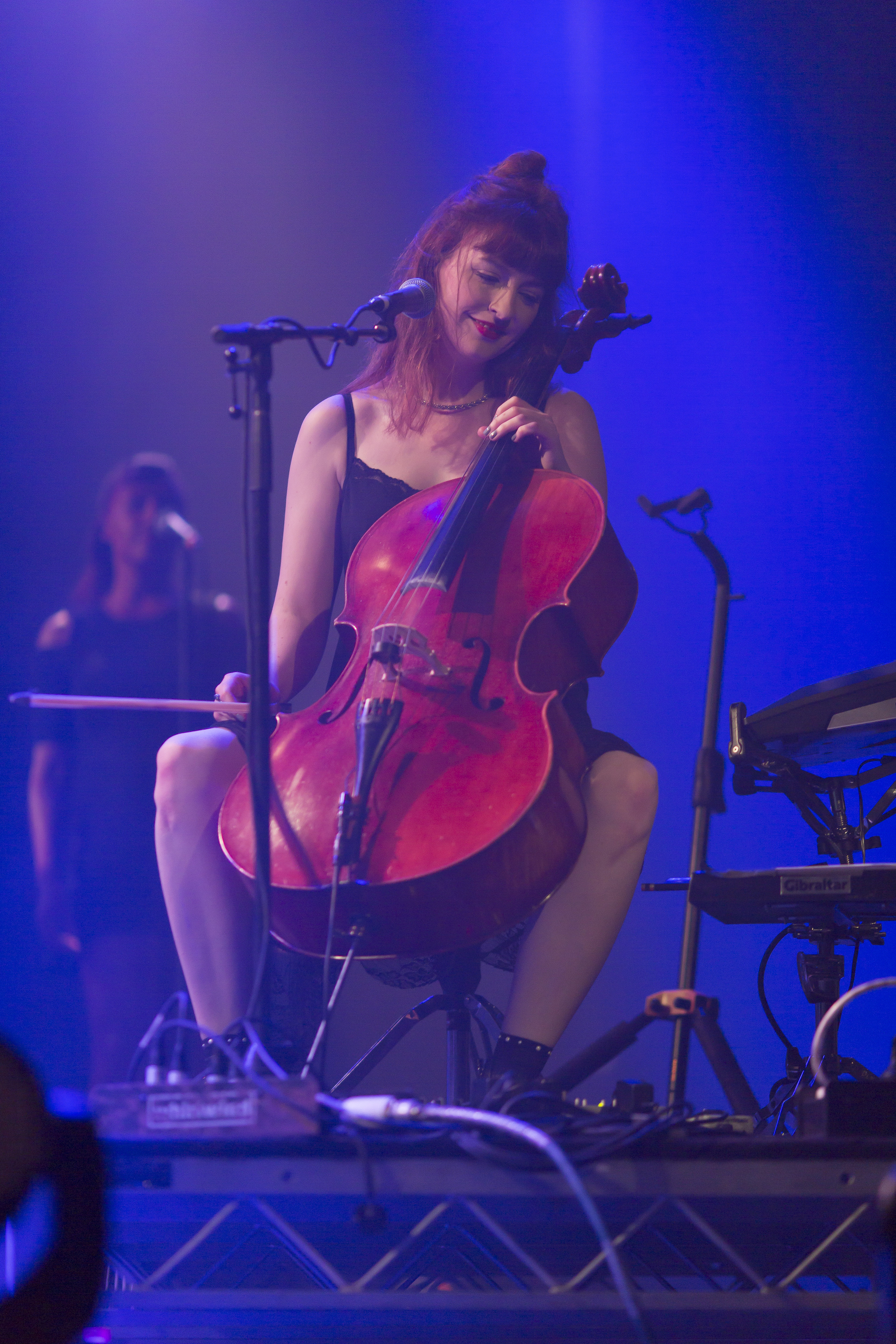 Cellist Alana Henderson at Byron Bay Bluefest